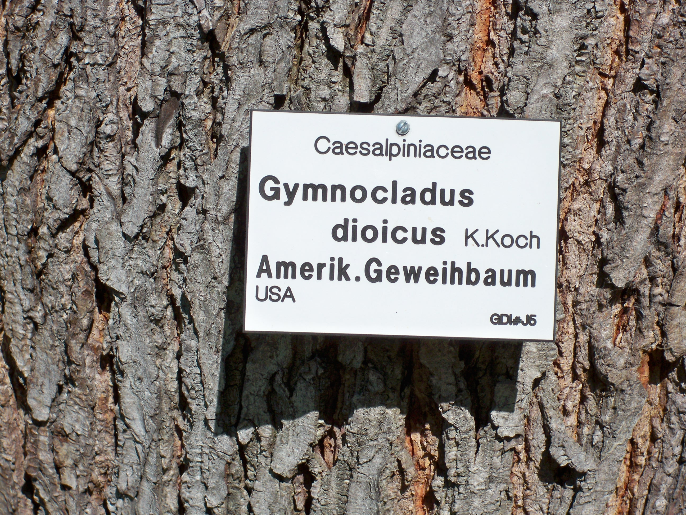 Sign for a tree in a botanical garden (Braunschweig, Germany)